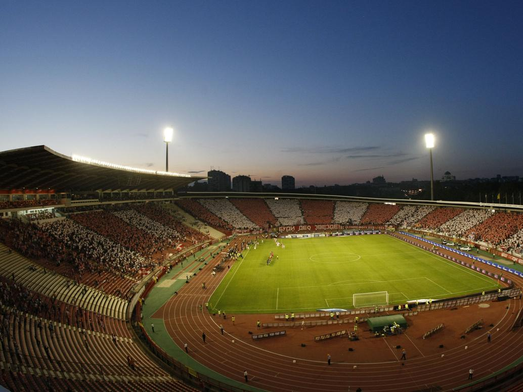 Stadion Crvene Zvezde Marakana